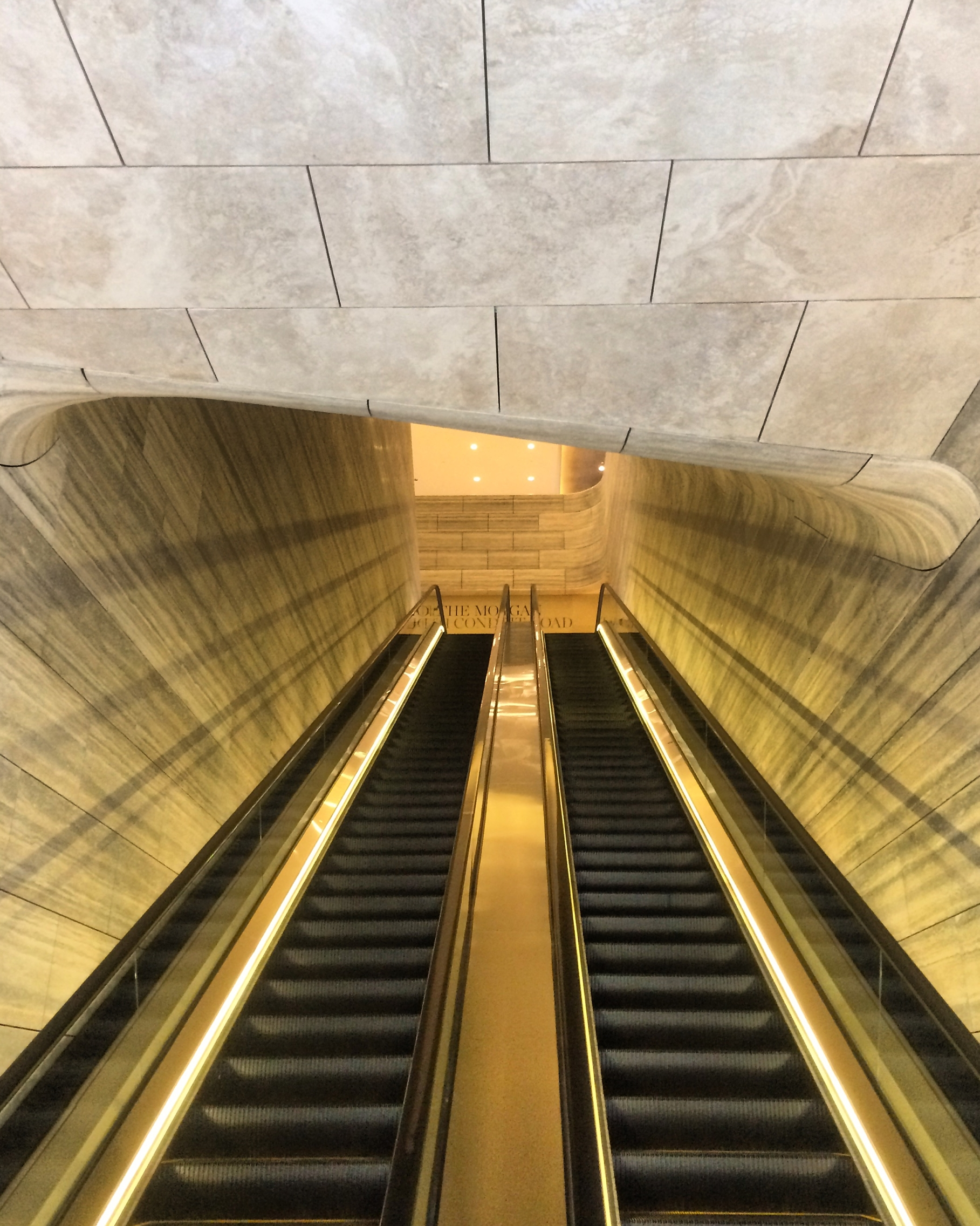 TOWER 535, Causeway Bay